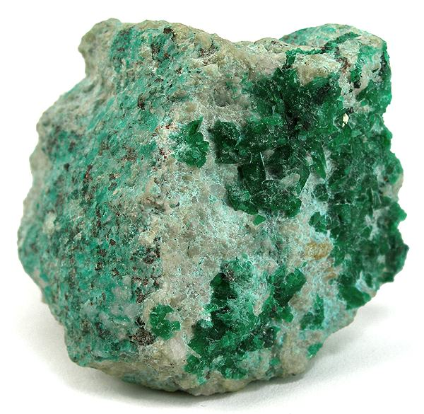 Natrochalcite Locality: Chuquicamata Mine, Chuquicamata District, Calama, El Loa Province, Antofagasta Region, Chile (Locality at ) Size: 5.6 x 4.5 x 3.8 cm. Natrochalcite is a very rare hydrated, sodium, copper sulfate the and the Chuquicamata Mine of Chile is the Type Locality. Discrete, gemmy and lustrous, emerald-green natrochalcite crystals to 6 mm richly and attractively cover the porphyry matrix. This very fine old-time specimen has an approximately 100-year old A.E. Foote label glued to the bottom of the piece.